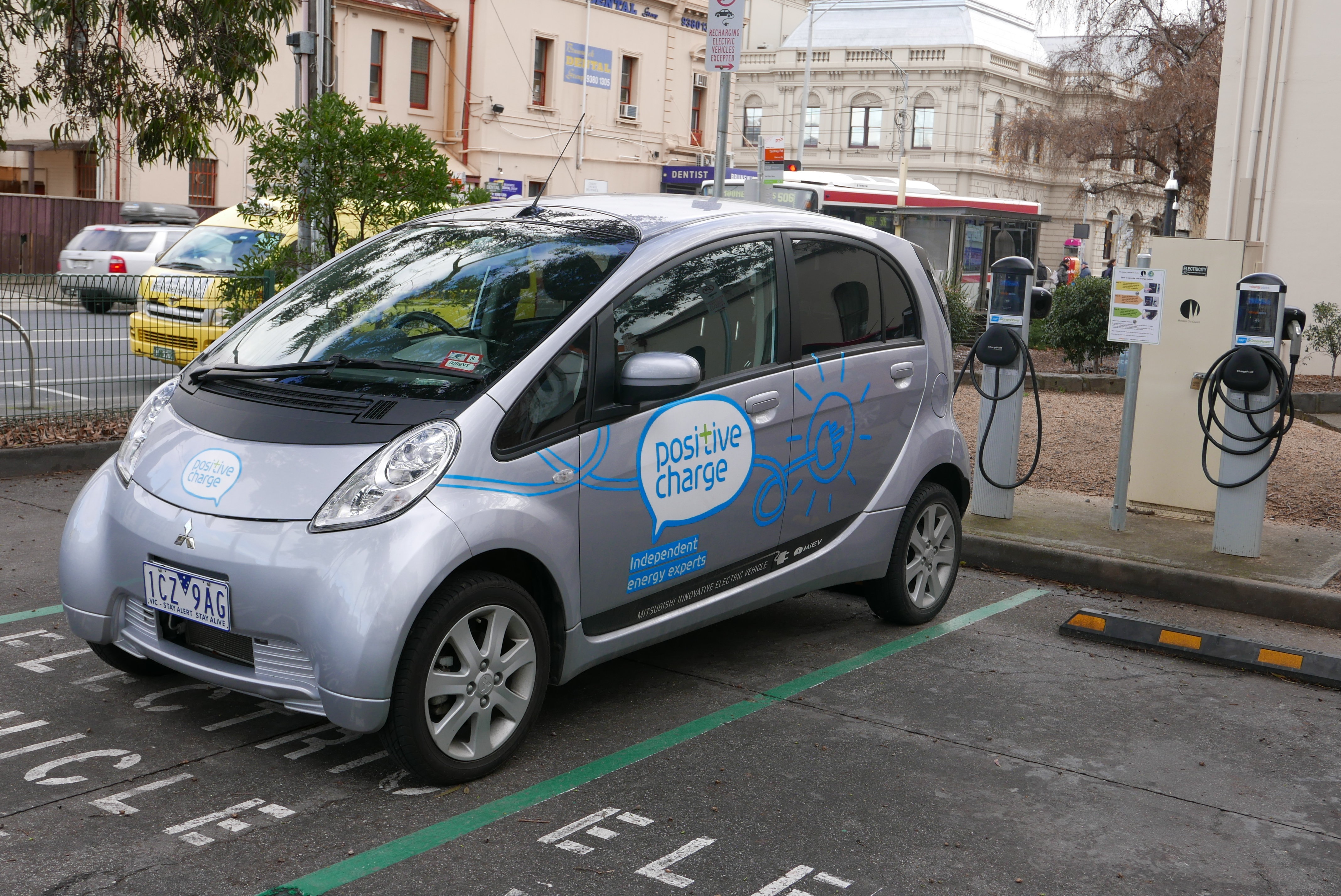 2010 Mitsubishi i-MiEV (GA MY10) hatchback, Positive Charge, using ChargePoint station. Photographed at 1 David Street, Brunswick, Victoria, Australia. Vehicle registration enquiry resultsJurisdictionVictoriaRegistration1CZ9AGChassis codeJMFLDHA3WAU003607Engine codeY4F1MF03546Compliance date2010-10Year of manufacture2010